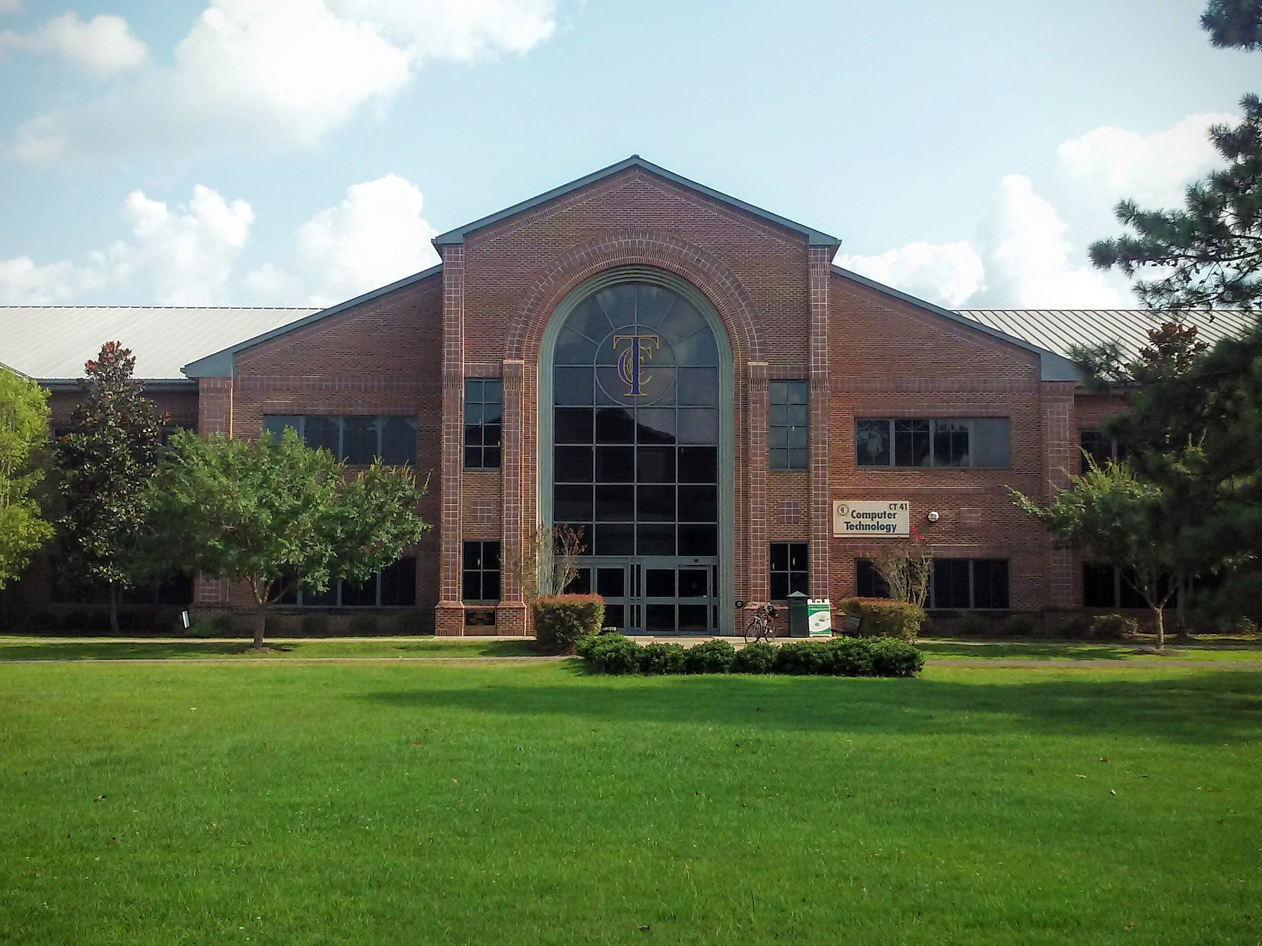 The entrance to the TCC Computer Technology building